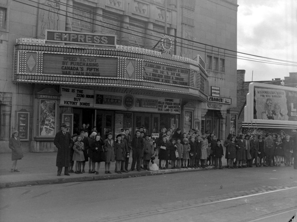 We see a group of schoolchildren at the exit of the "Empress Theatre" located at 5560 Sherbrooke Street West in Montreal. The neon sign of movie theater encourages the purchase of Victory Bonds and announces the film "For me and my Gal". We notice a poster requesting accommodation for the workers of war.